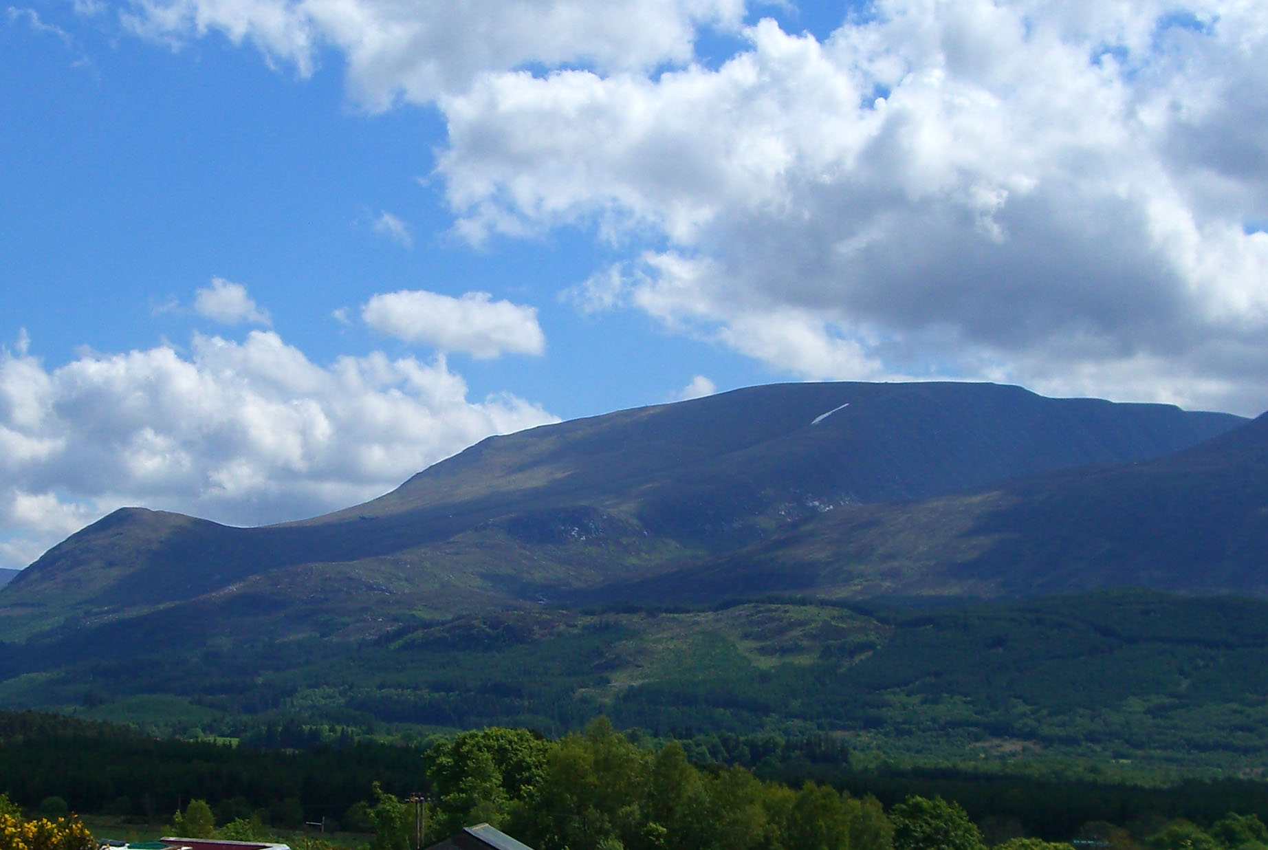 Personal photograph taken by Mick Knapton